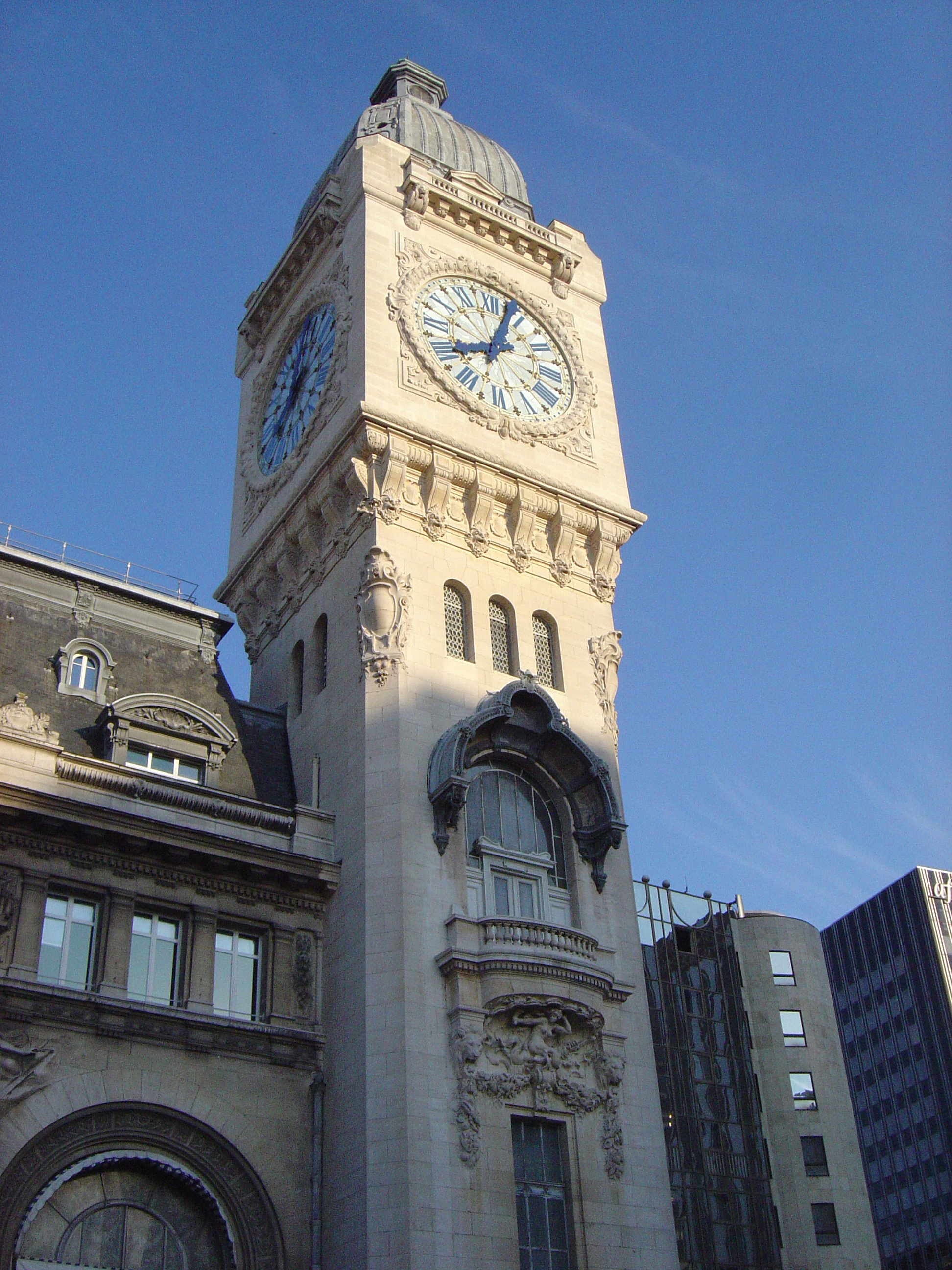 Gare de Lyon, Paris, clock tower 2005/06/11